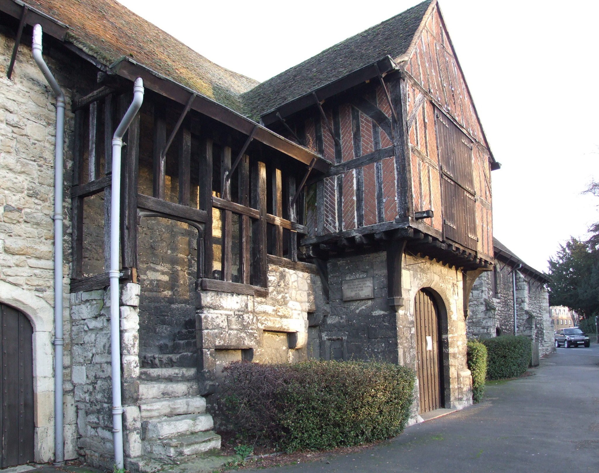 Maidstone.Tithe barn to the Archbishops Palace, now used as a Carriage museum. Dated 1398. - Google Maps - Google Earth